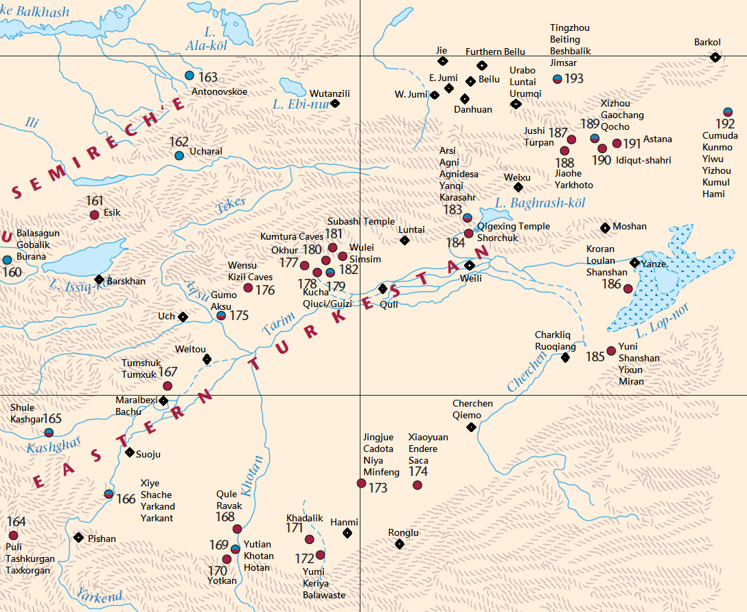 Historical Xinjiang